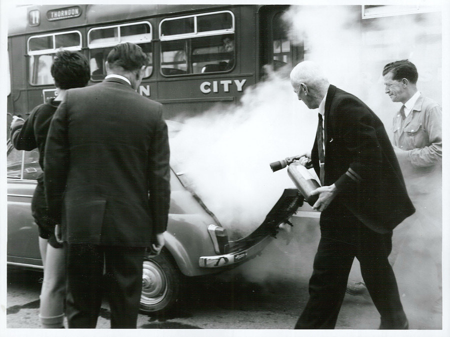 Other motorists came to the rescue as a Fiat "500" goes up in flames outside Wellington Public Hospital